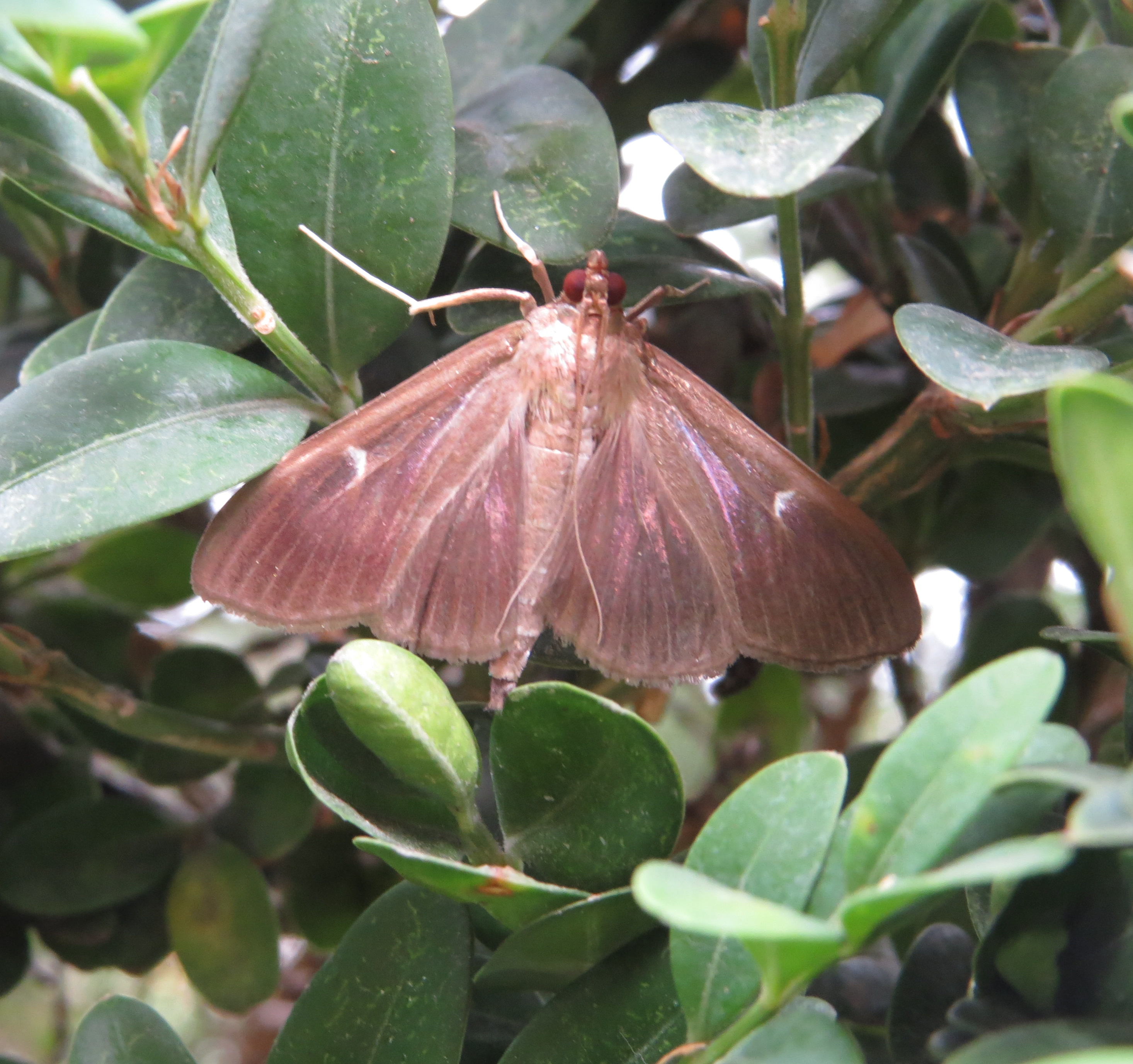 The picure shows the brown variant of the box tree moth (Cydalima perspectalis), which represented just a few per cent (1-5%) of the moth population in my garden. Actually this was the 4th brown one of the hundreds of adult box tree moths that I saw swarming about for weeks.